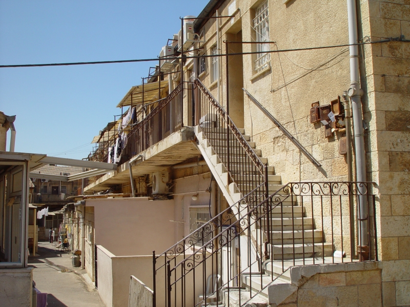 Knesset Gimmel neighborhood, in central Jerusalem, Yizre'el street